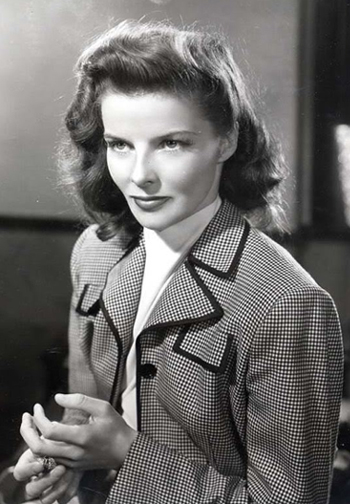 Cropped publicity still of Katharine Hepburn in the 1942 film Woman of the Year. See File:Katharine_hepburn_woman_of_the_year.jpg for full information.